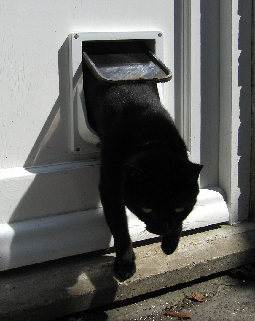 Cat flap, with cat coming through. Keywords: Cat flap, black cat